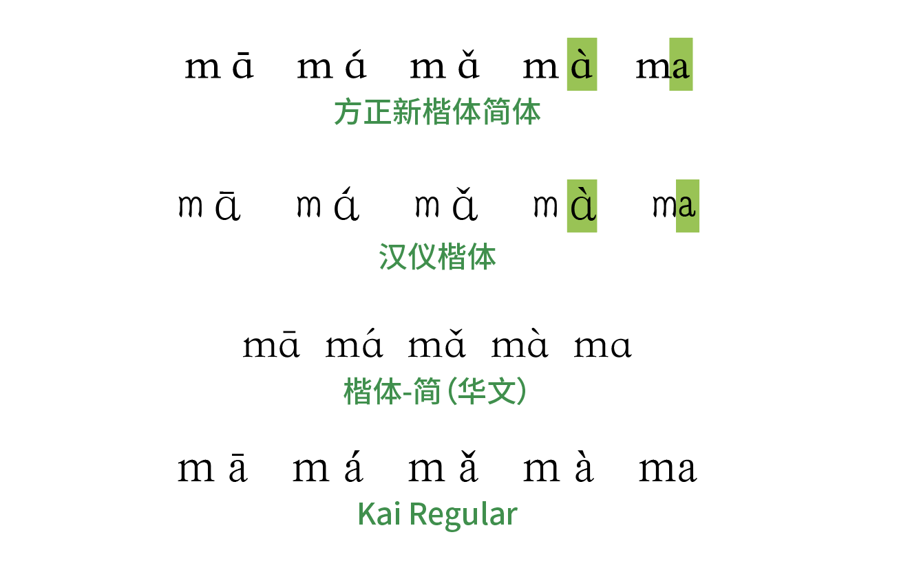 This illustration shows "mā má mǎ mà ma" in 4 different Kai fonts: 方正新楷体简体, 汉仪楷体, 华文楷体-简 and Kai Regular (Mac). This demonstrate the difference of the accented pinyin with the normal letter, and also demonstrate the em-width of the accented pinyin.